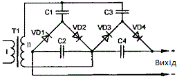 Схема двохпівперіодного помножувача